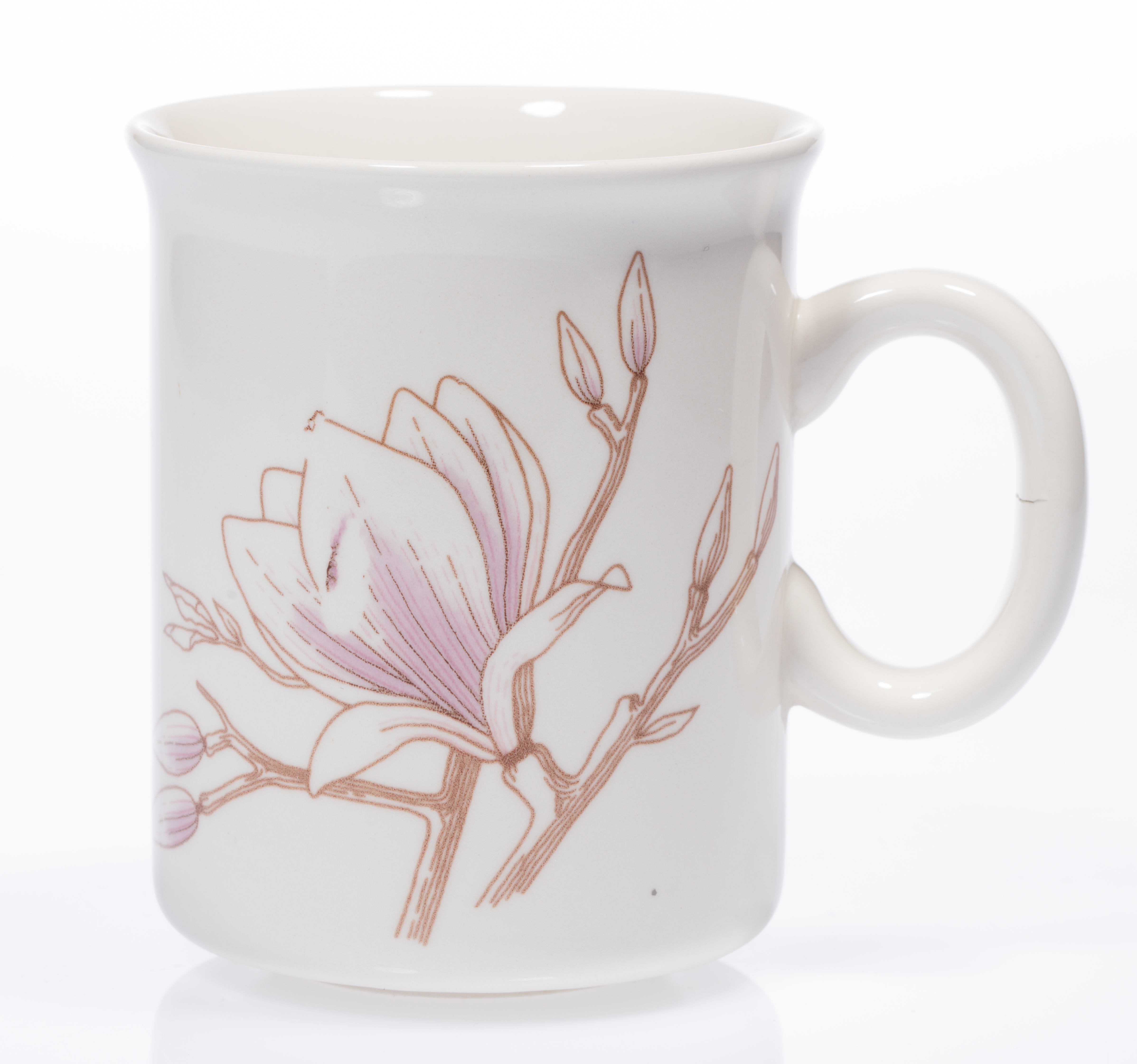 An image of a Crown Lynn cup with a magnolia pattern.